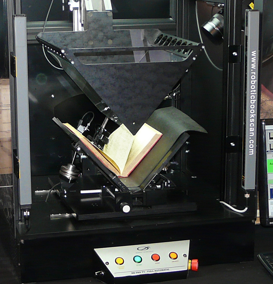 Book scanner RBS Pro TT. International Bookfest in Budapest, 2010.